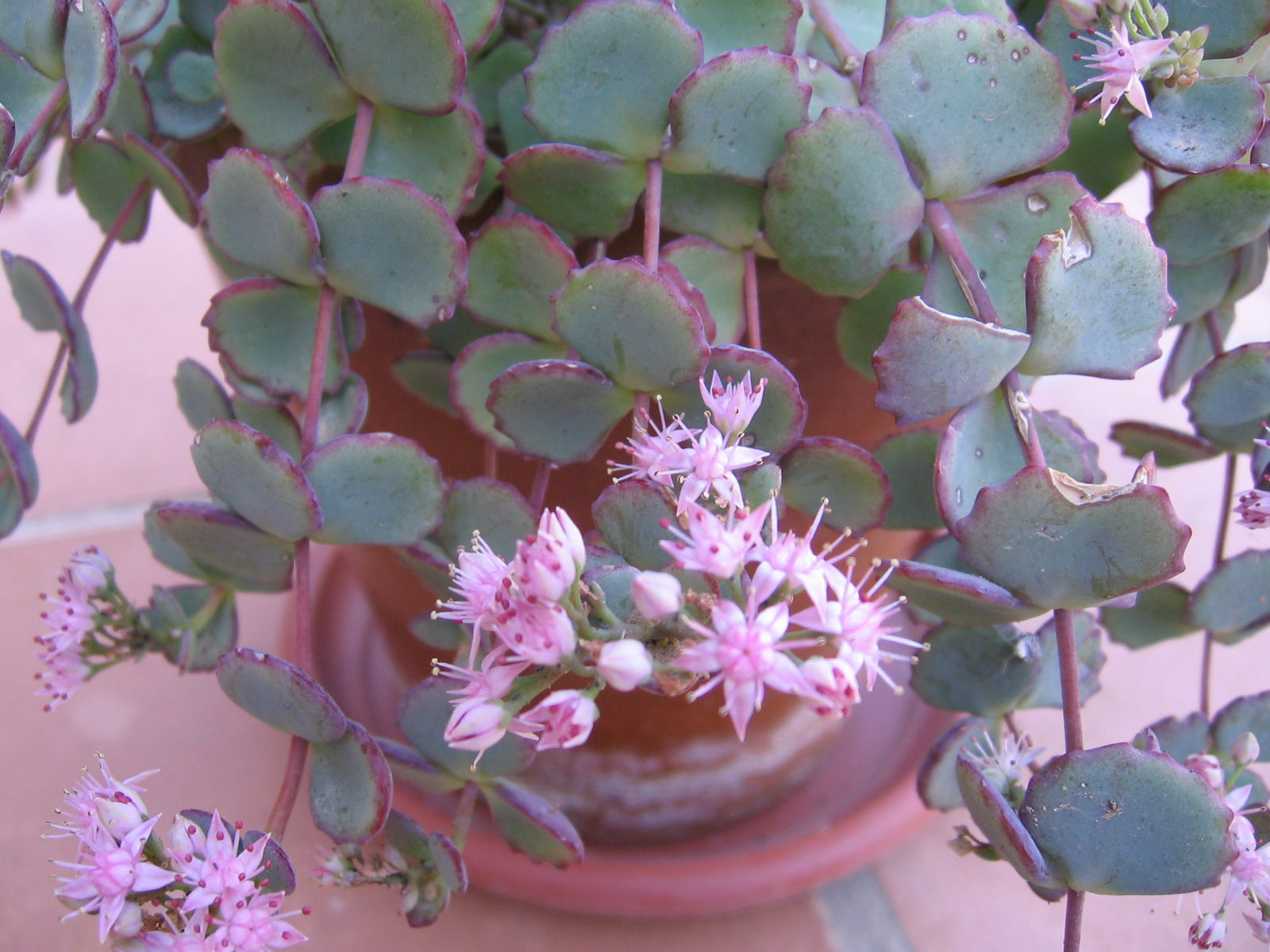 Sedum sieboldii